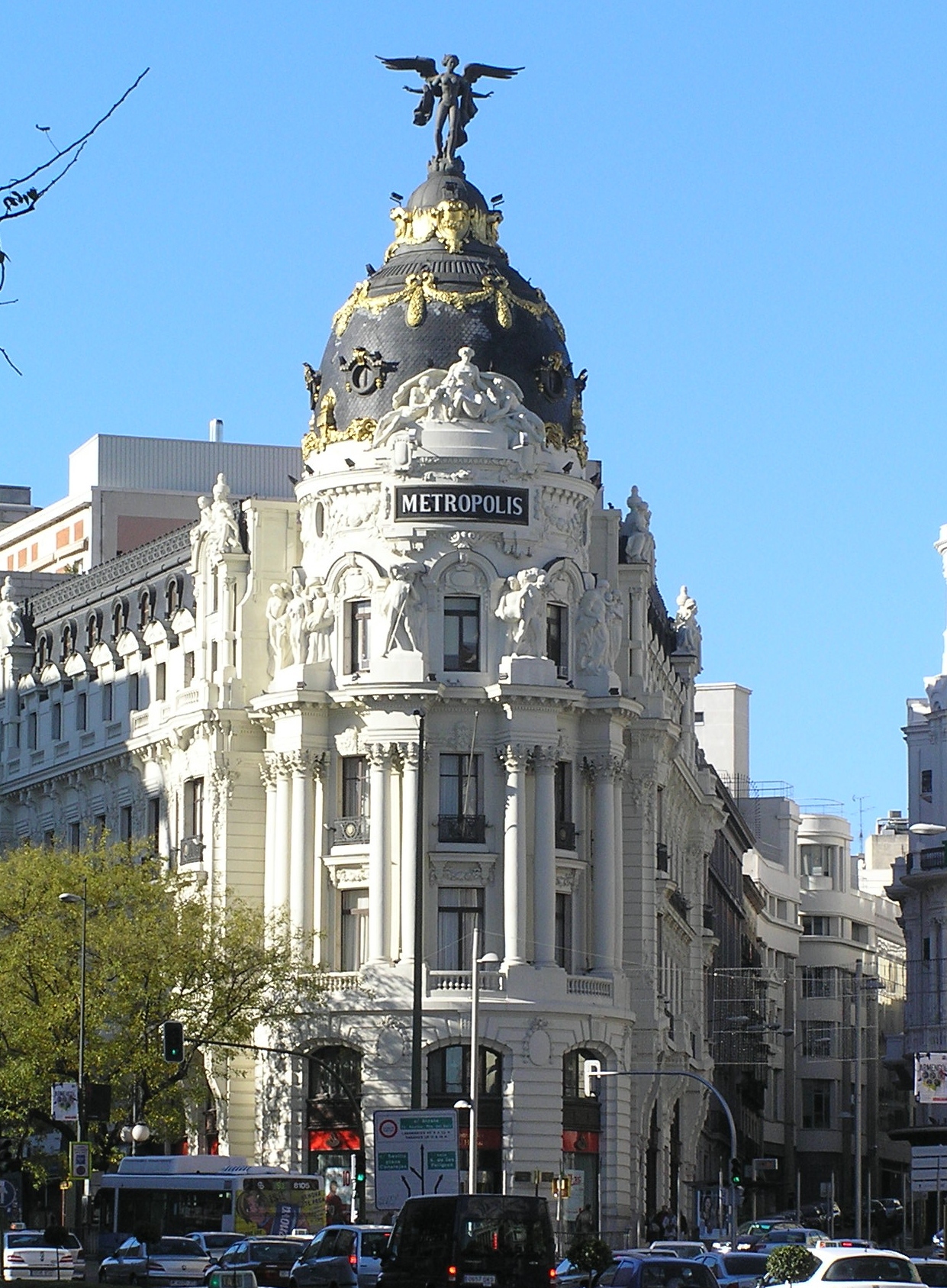 Metrópolis Building, in Gran Vía and calle de Alcalá, Madrid, Spain Author: Mr. Tickle Date: December 6th, 2005 (Constitution Day) Place: Cruce de Gran Vía y Alcalá, Madrid, Spain